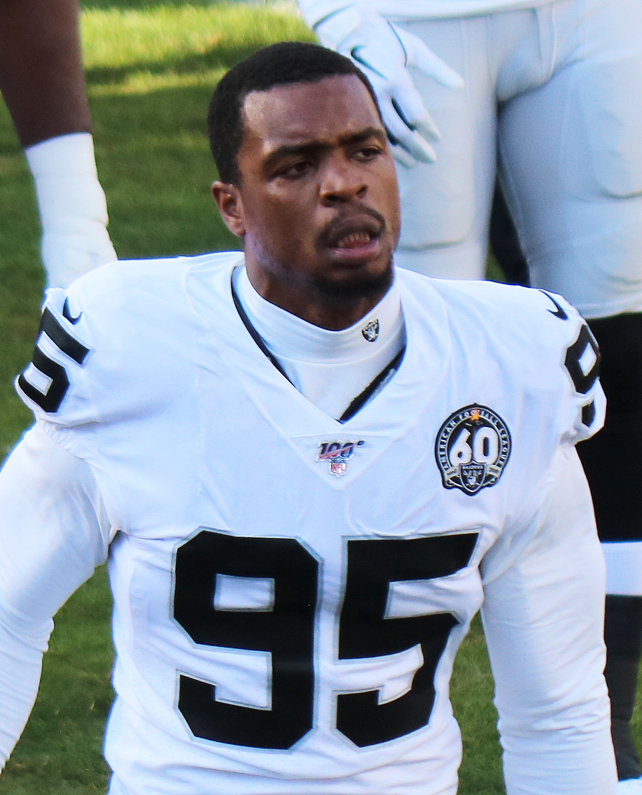 Dion Jordan, a National Football League player.